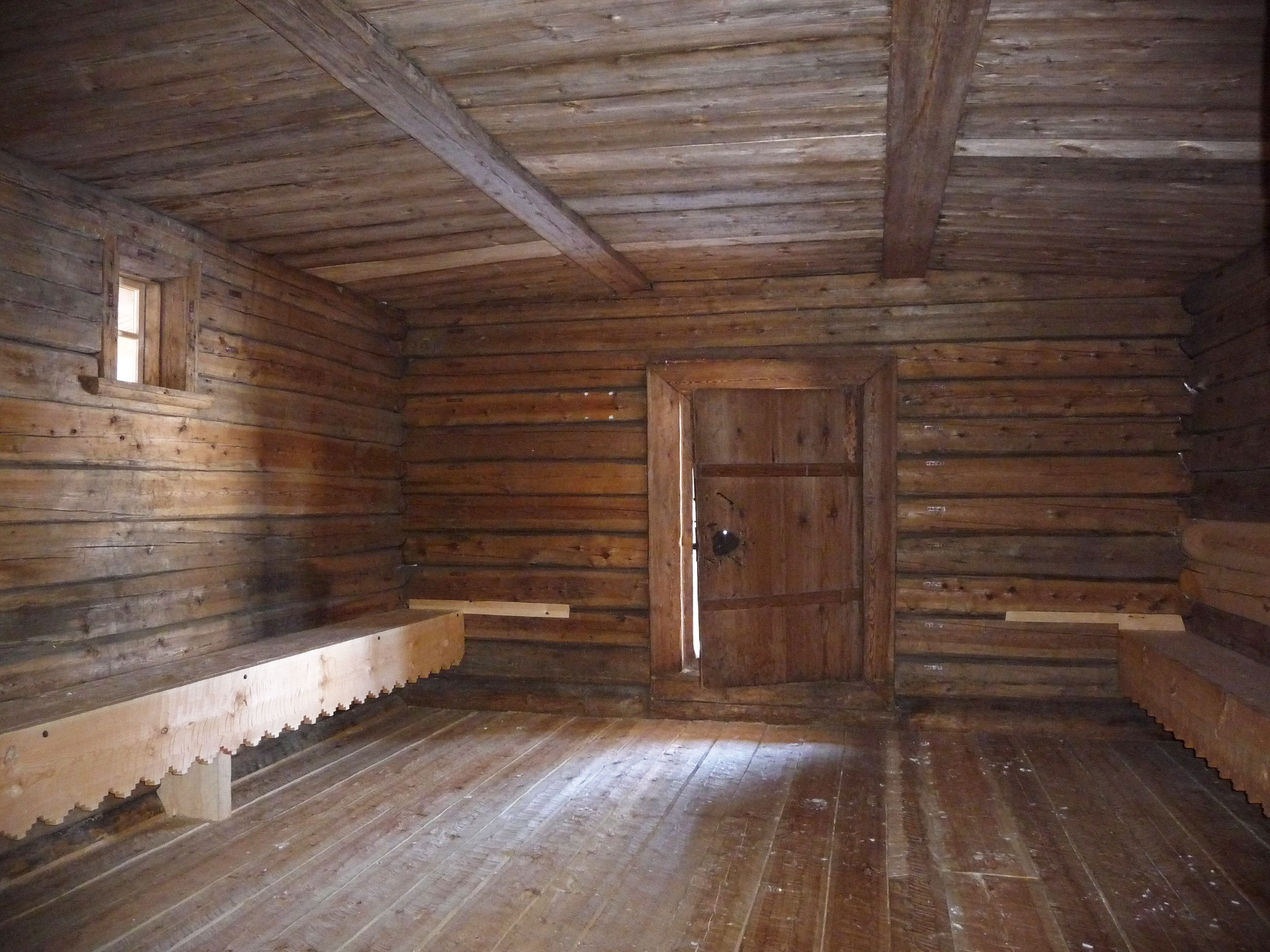 Interior_of_the_Refectory_of_the_Church_of_the_Deposition_of_the_Robe. 1485. Kirillov. Vologodskaya oblast. Russia.